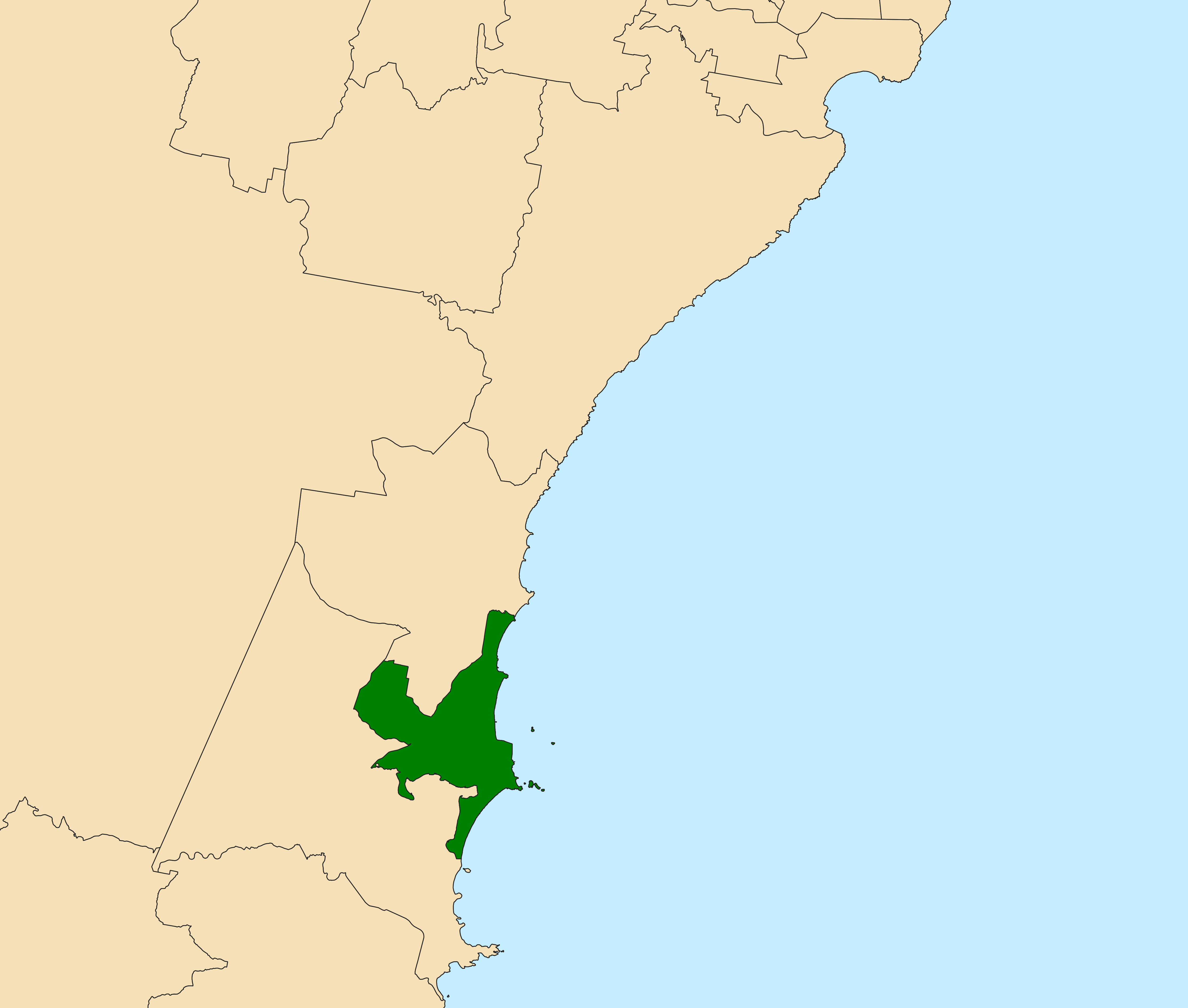 Location of the state electoral district of Wollongong (dark green) in the Illawarra region of New South Wales, Australia as of the 2019 New South Wales state election. Incorporates or developed using Administrative Boundaries ©PSMA Australia Limited licensed by the Commonwealth of Australia under Creative Commons Attribution 4.0 International licence (CC BY 4.0).